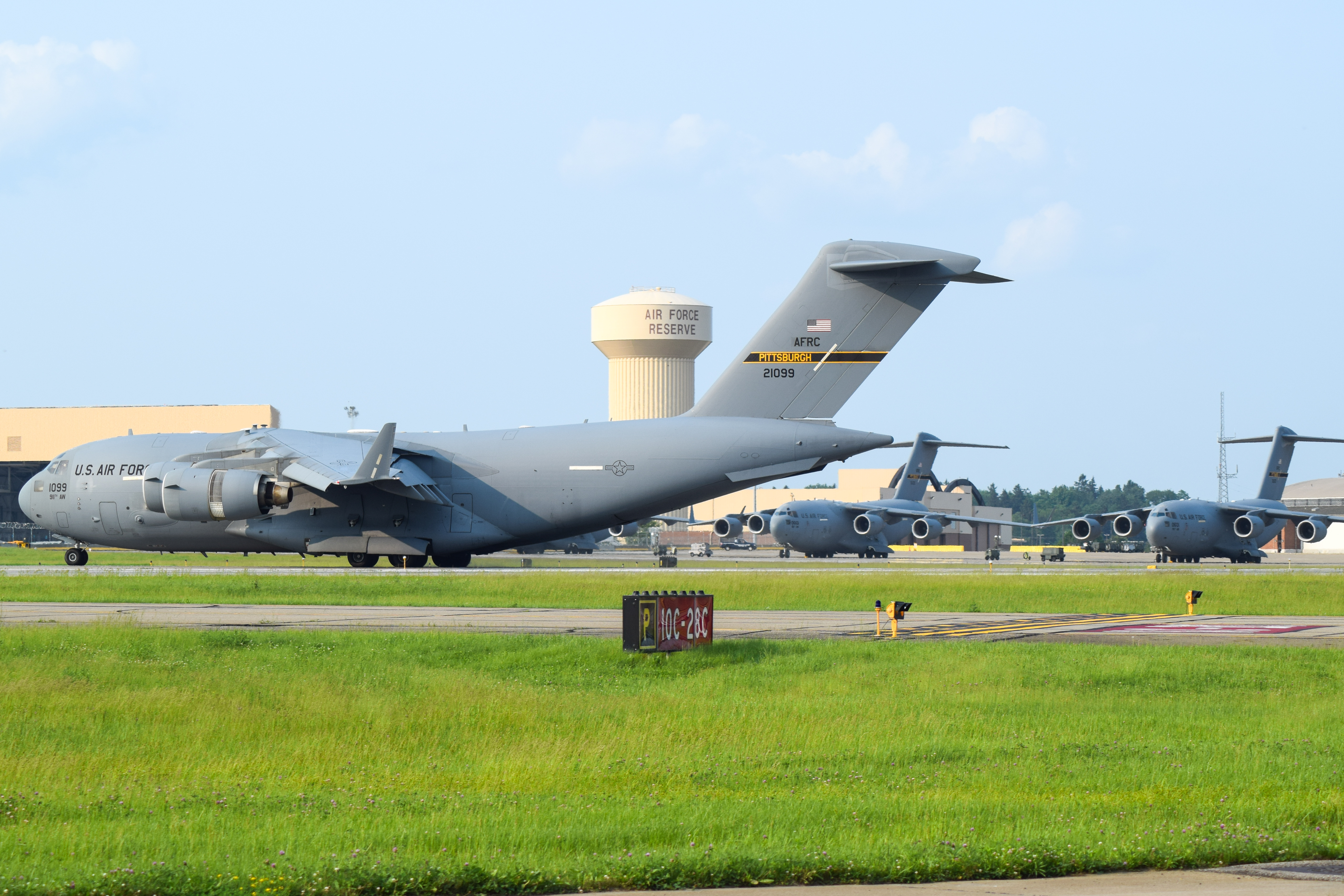 A 911th Airlift Wing C-17 Globemaster III about to exit the runway with its sister ships on the flightline.